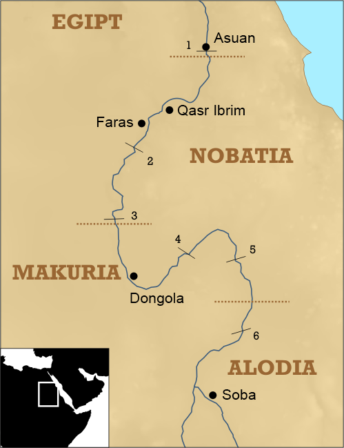 Modified version of File:Christian Nubia.png, with Polish names